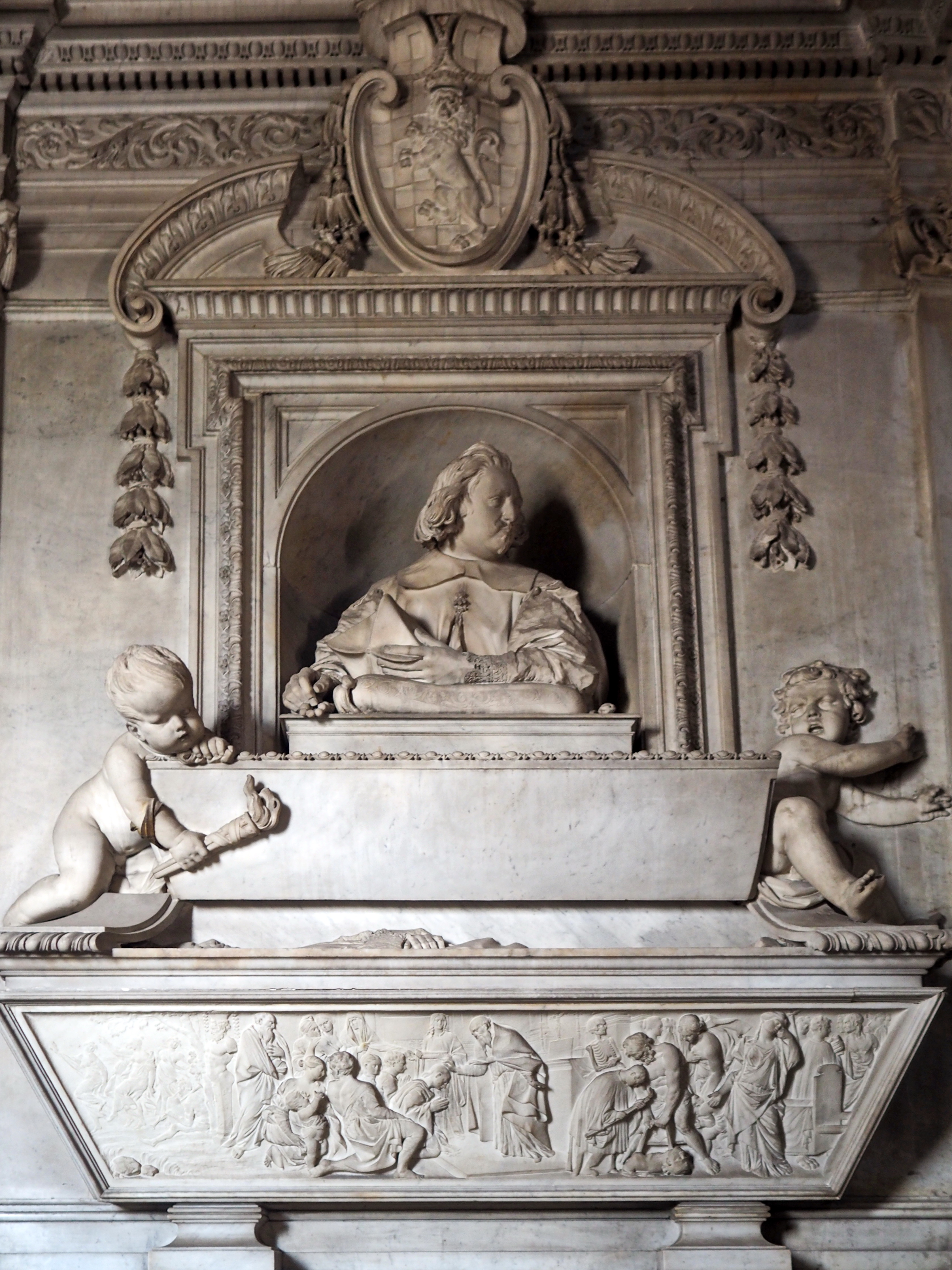 San Pietro in Montorio (Rome); Cappella Raimondi; Monument for Francesco Raimondi